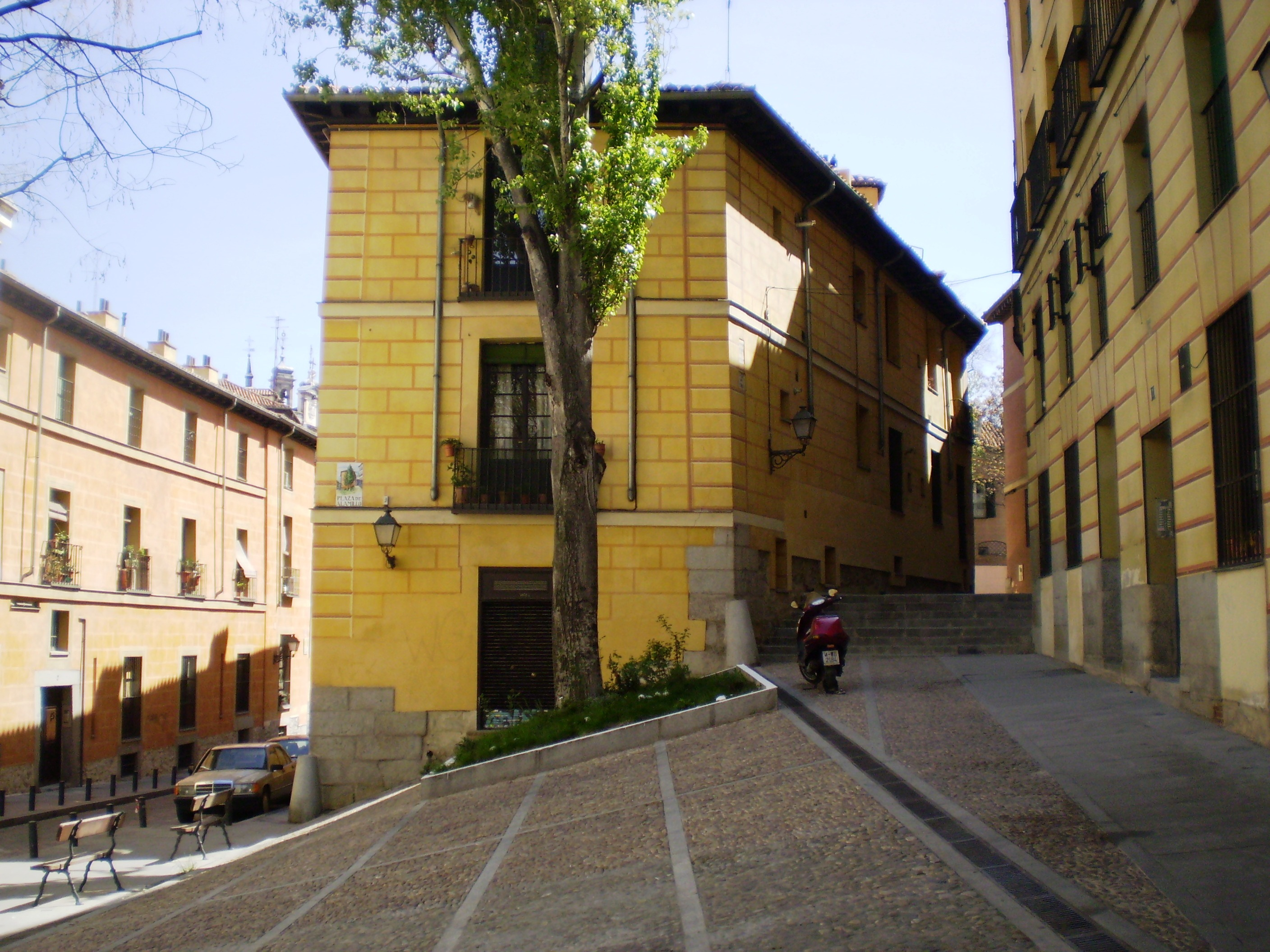 Square of Alamillo, Madrid, Spain